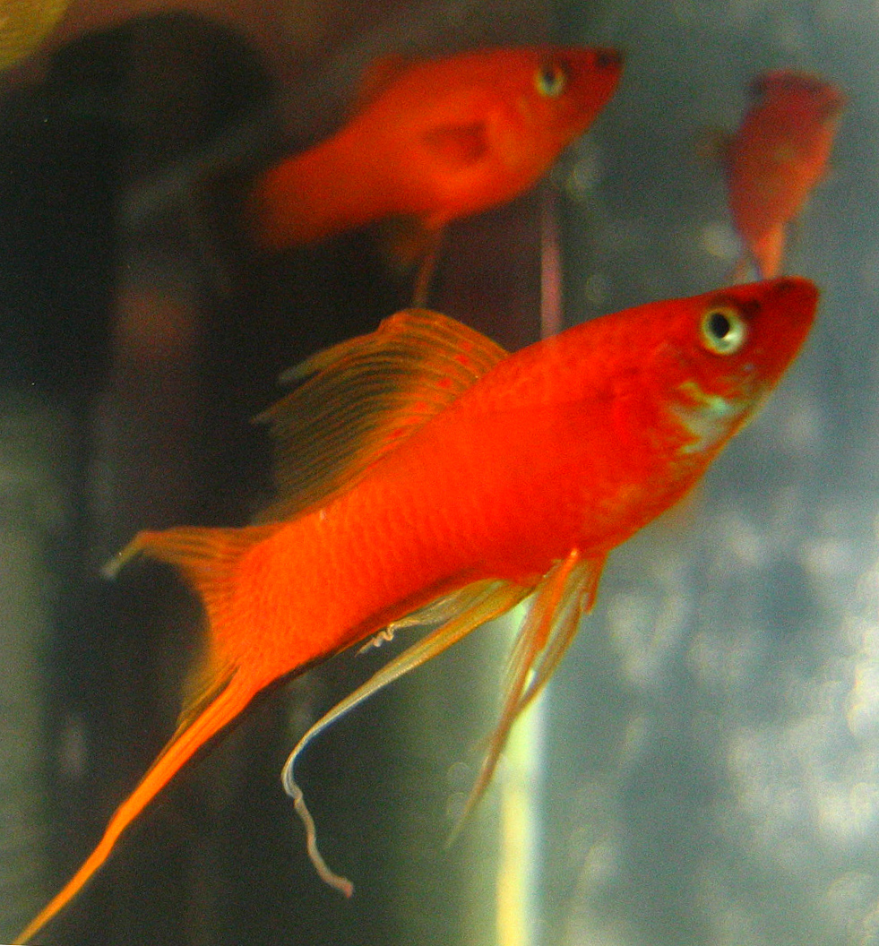 The species green swordtail (Xiphophorus hellerii; IPA pronounciation for Latin: [ksɪ'foːfɔrʊs hɛleːrɪɪ]).